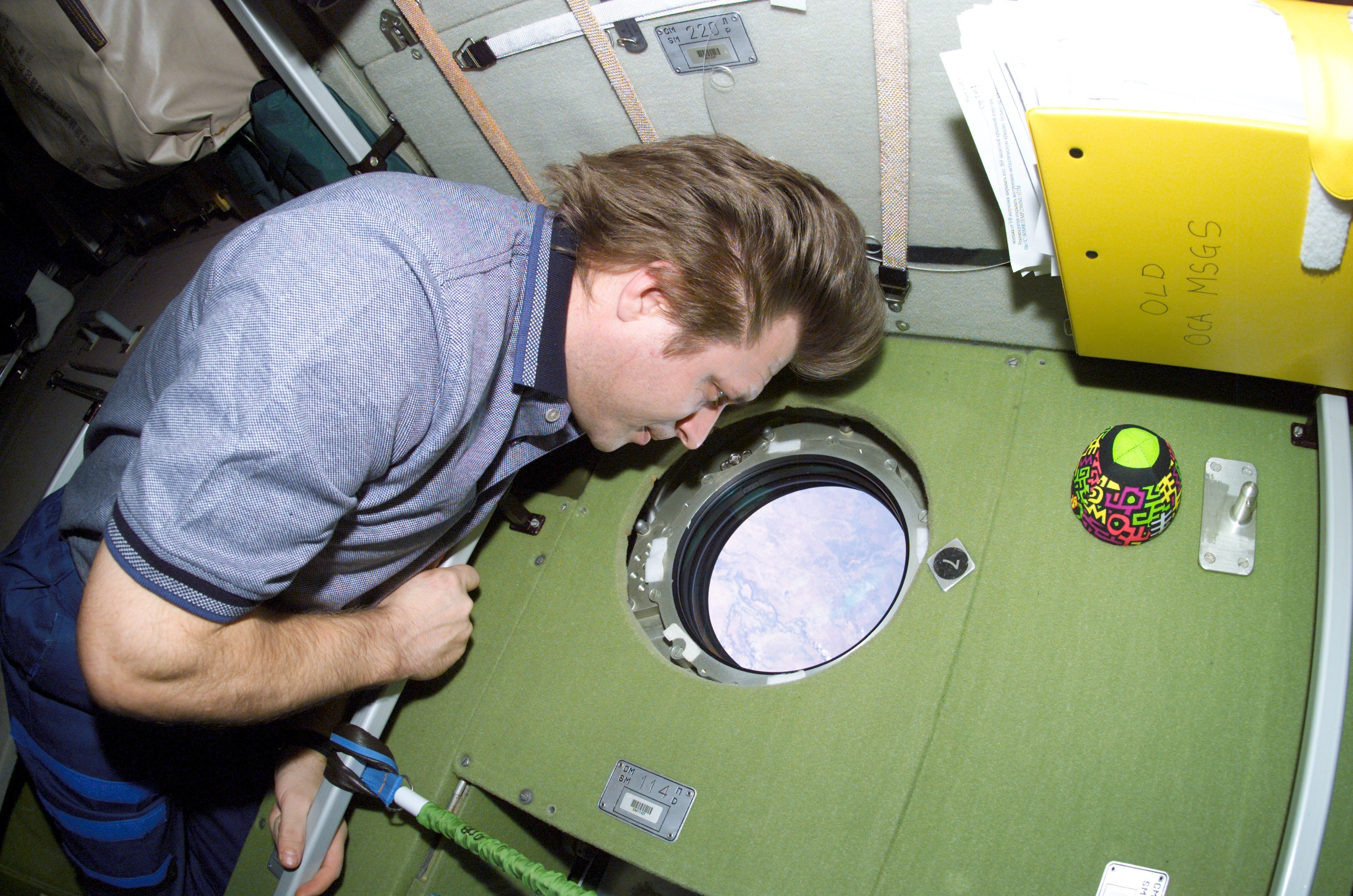 Cosmonaut Yury I. Onufrienko, Expedition Four mission commander, looks out a window in the Zvezda Service Module on the International Space Station (ISS).